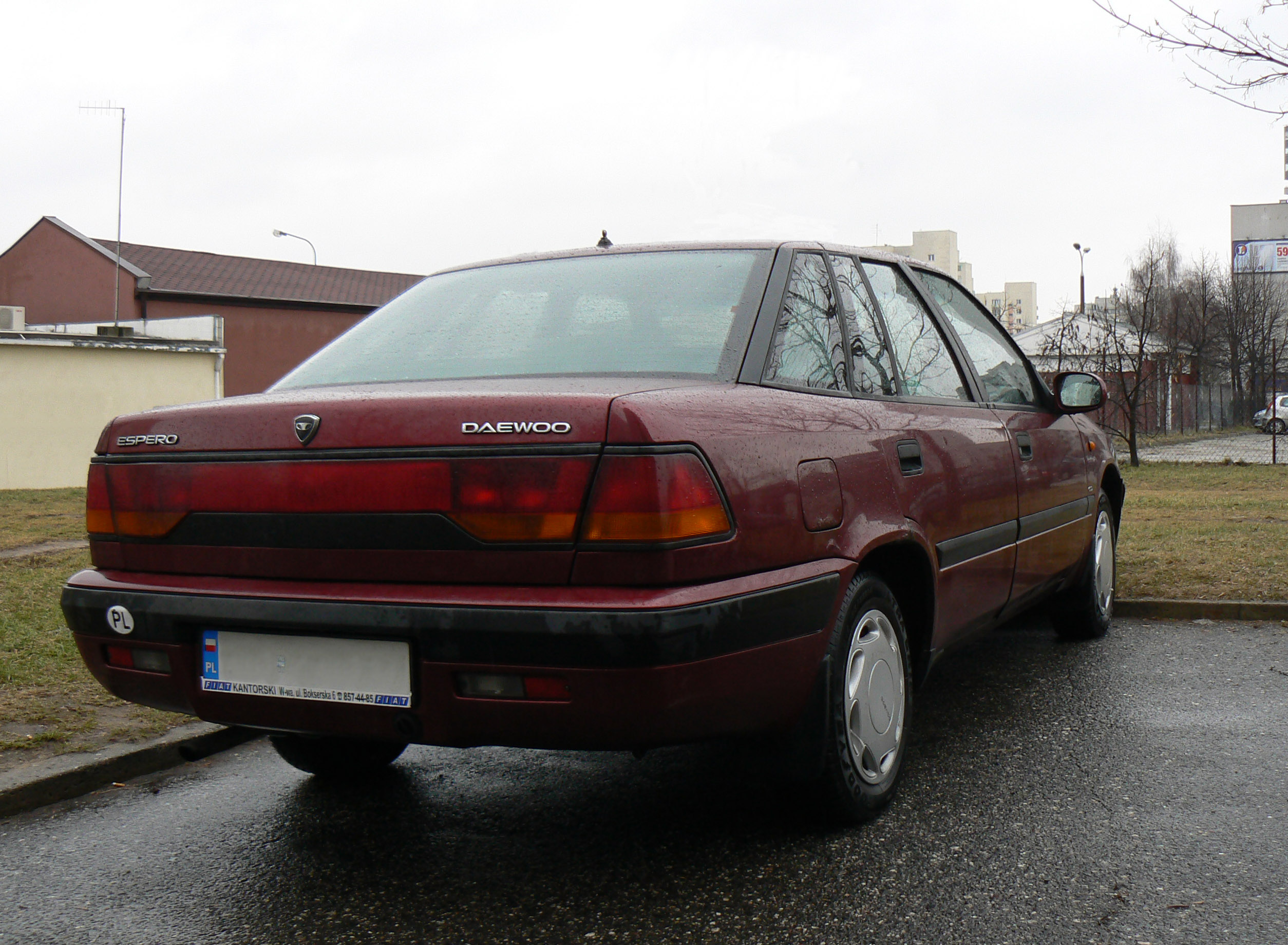 Daewoo Espero, photographed in Warsaw, Poland. Rear.